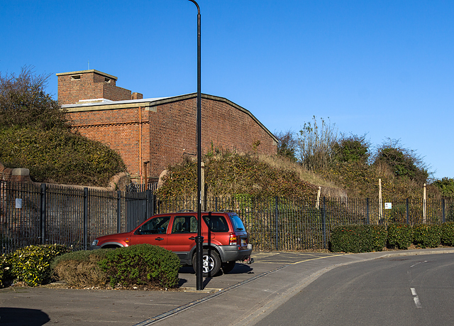 WWII Hampshire - Defending Gosport - Portsmouth anti-tank island (3)